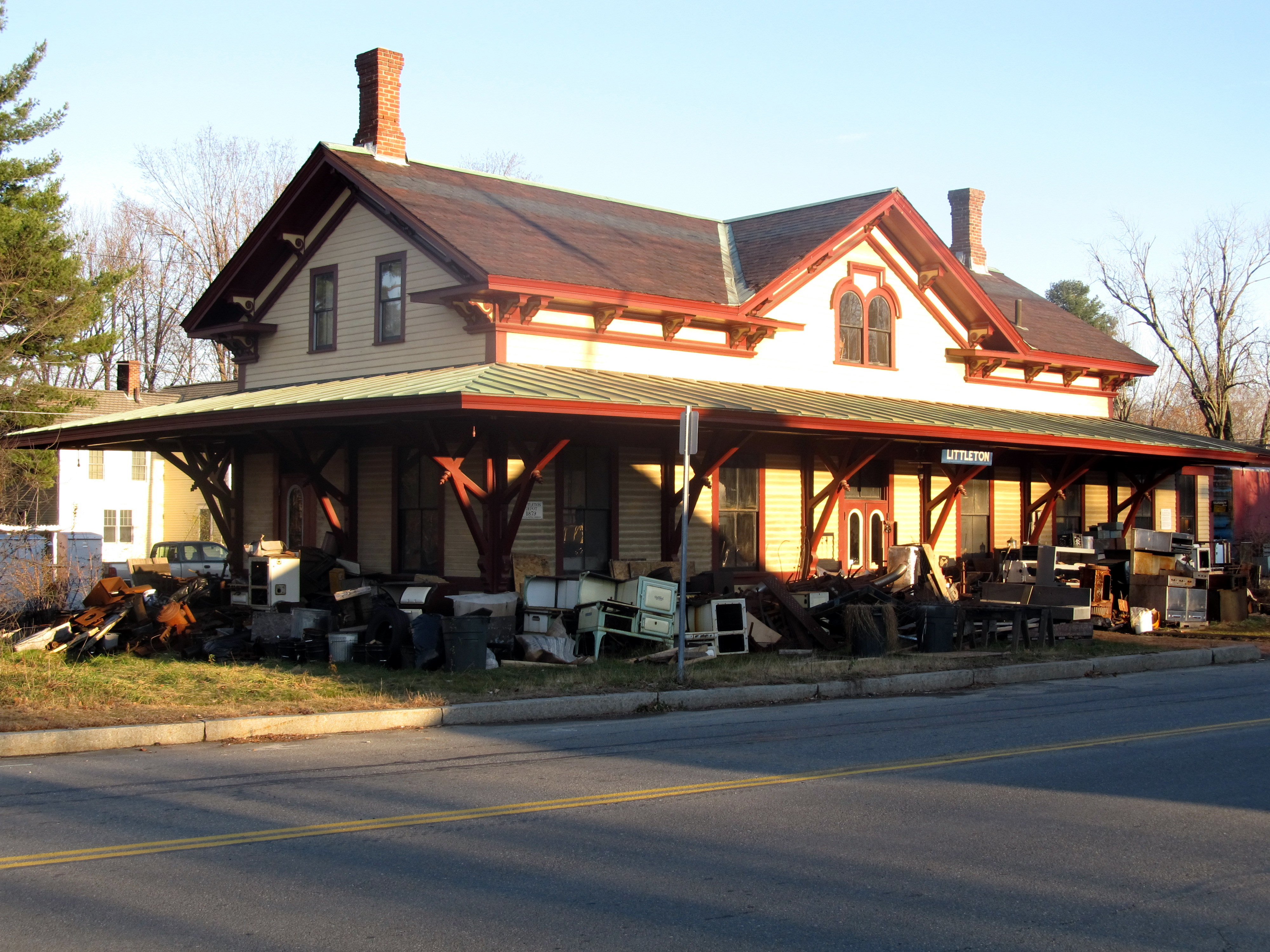 Former Littleton depot, now a stove restoration shop with junk piled around